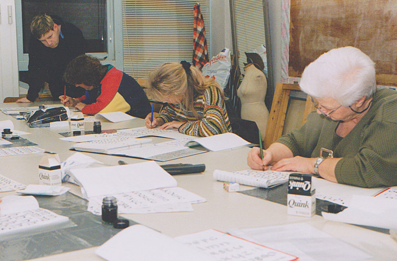 A group of people who is learing calligraphy